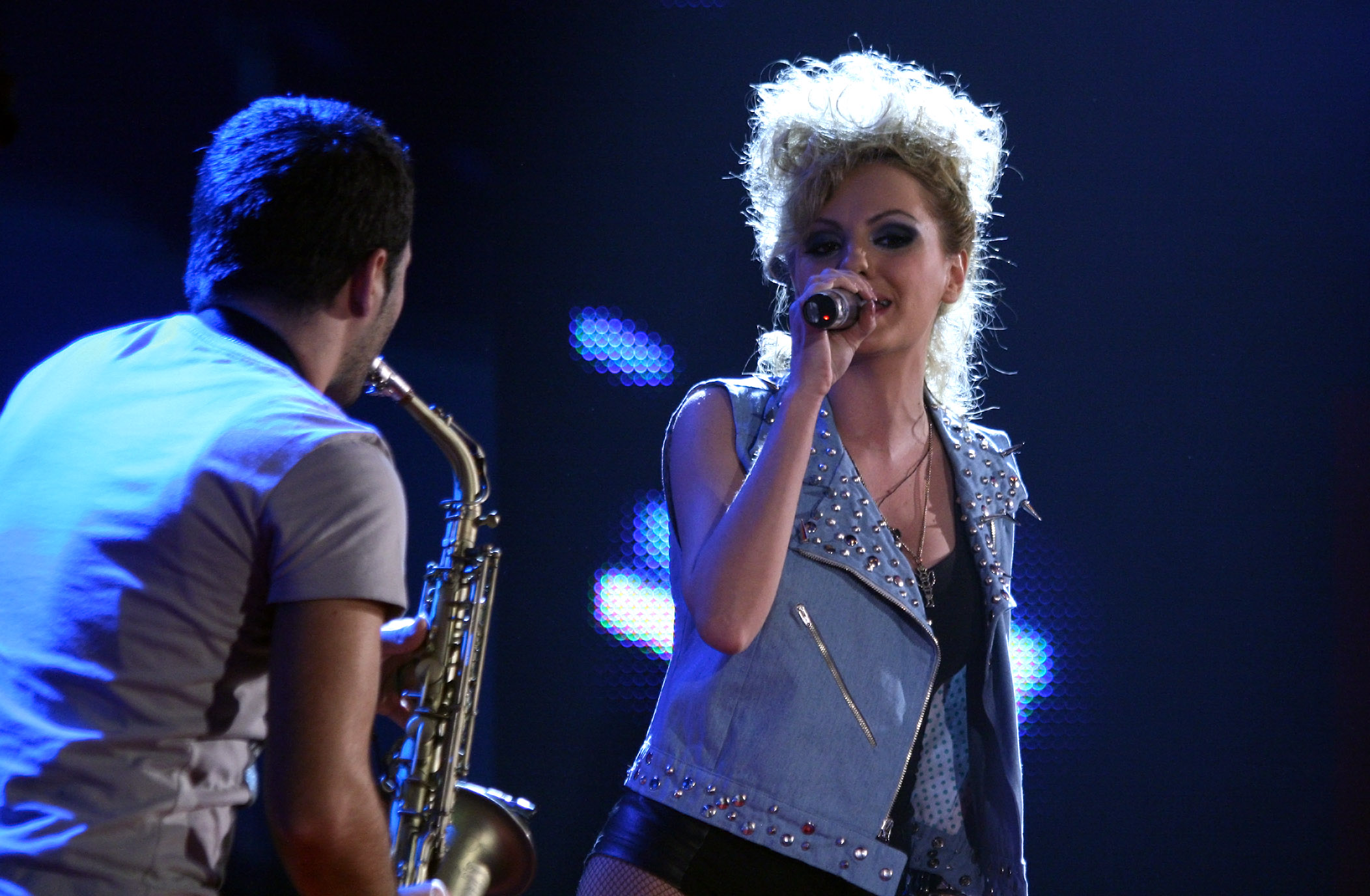 Alexandra Stan performing at the presentation of the Austrian Sportspersonalities of the Year 2011 (Eventhotel Pyramide in Vösendorf, Lower Austria).